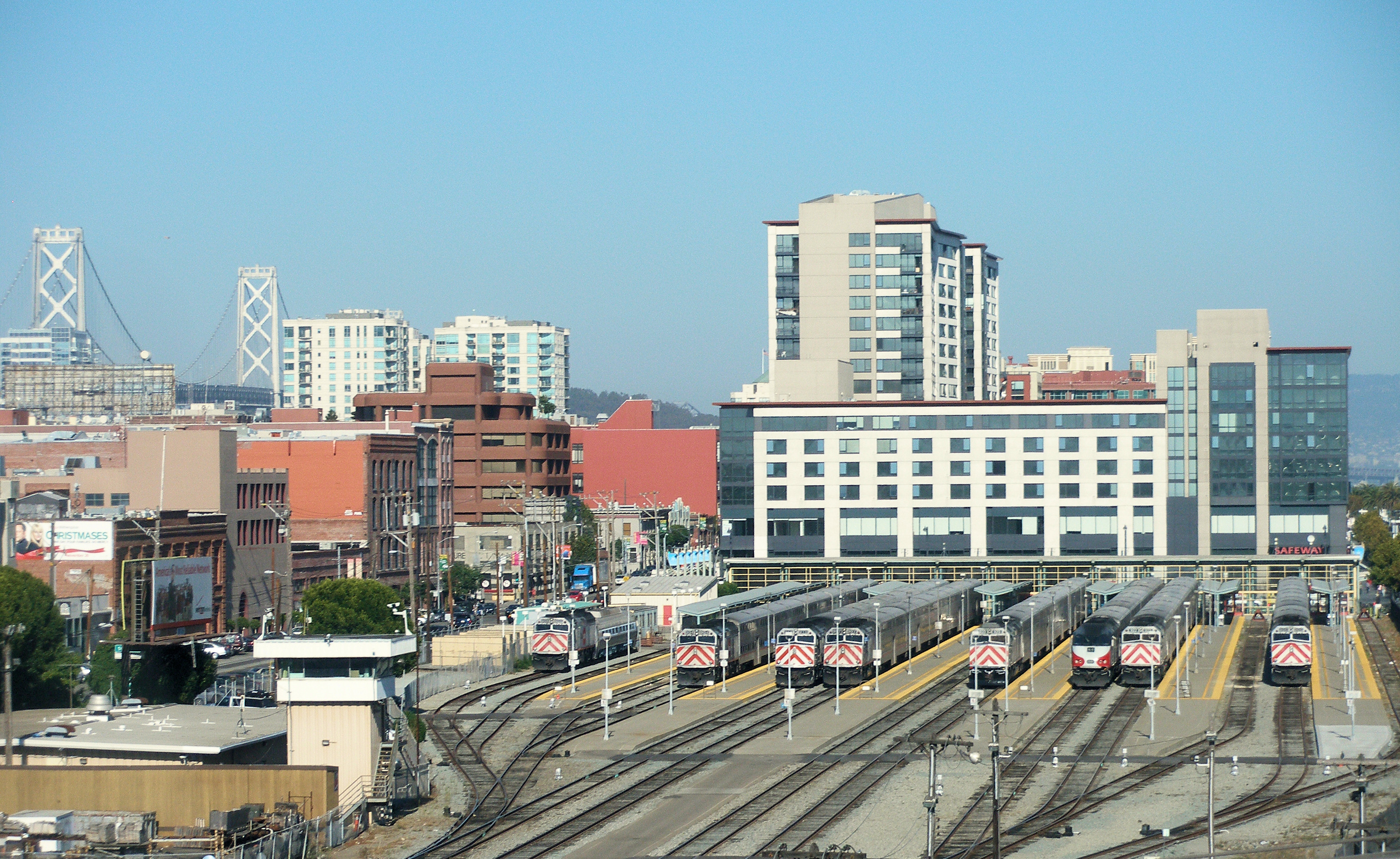 The northern terminal of the Caltrain commuter rail line, located in San Francisco. The view is facing north from the nearby Sixth Street off-ramp from Interstate 280.